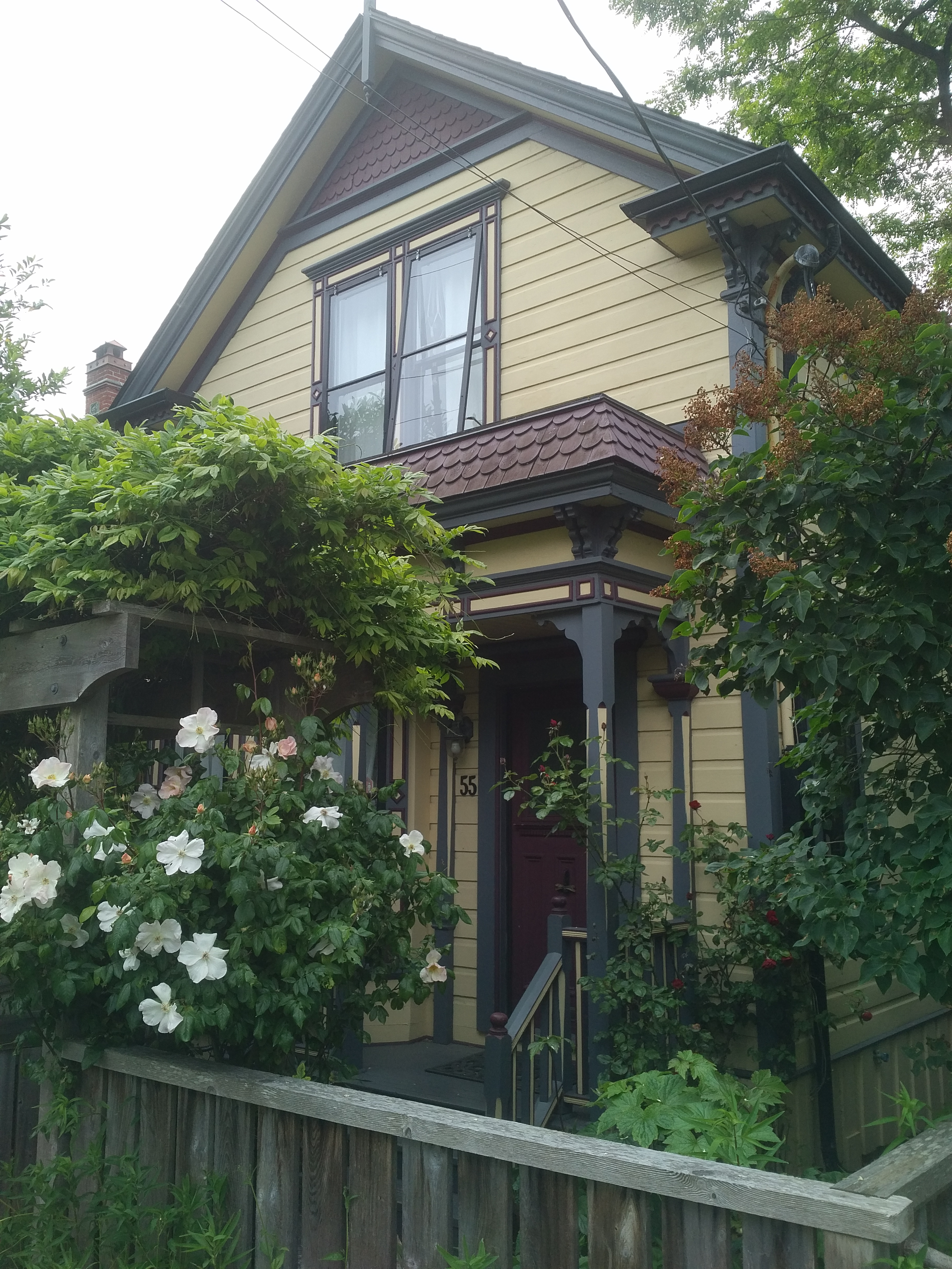 55 Oswego, Victoria, British Columbia